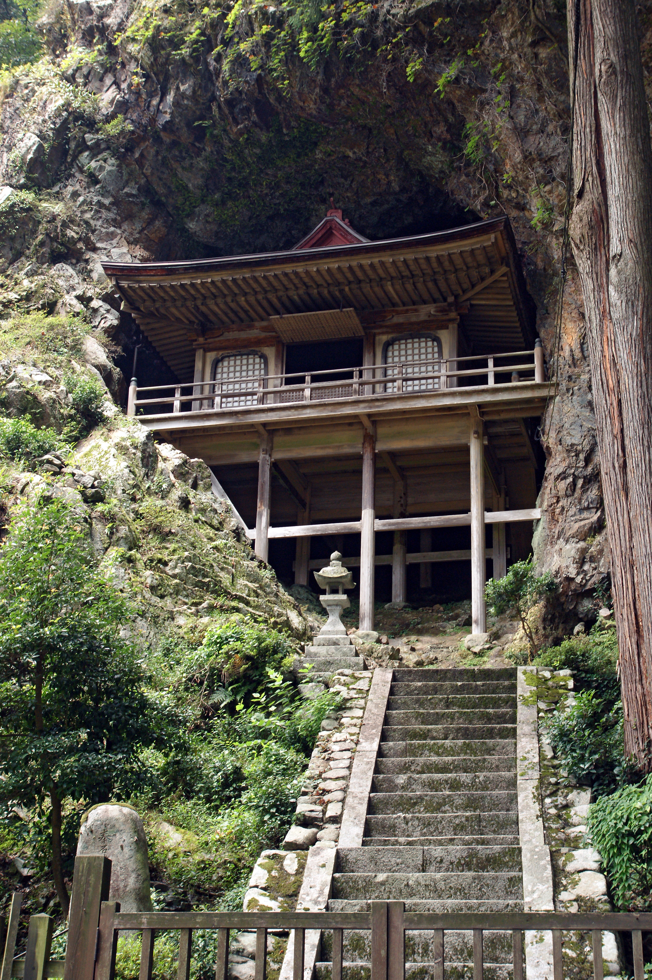 Fudoin Iwayado (Important Cultural Property) in Wakasa, Tottori prefecture, Japan